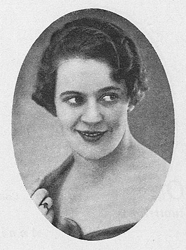 Finnish theatre personality, photographed in early 1930s.